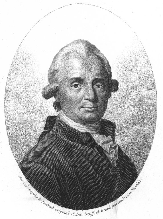 Marcus Elieser Bloch (1723-1799), German zoologist